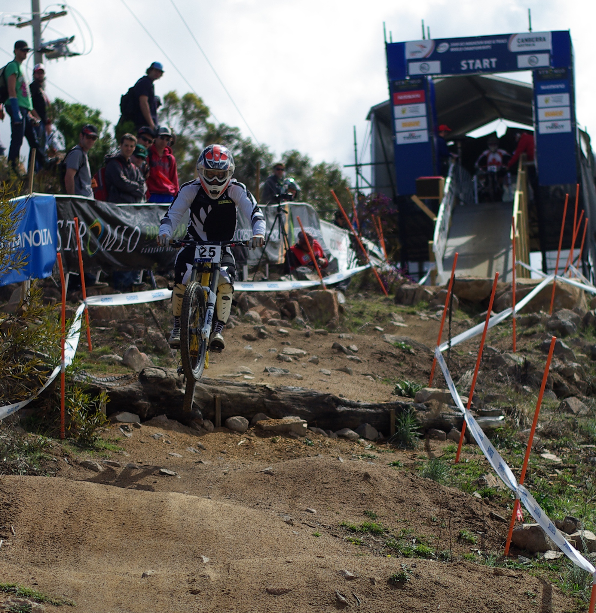 Cross-country mountain biking: Competitors in downhill events at the 2009 UCI Mountain Bike and Trials World Championships held at Mount Stromlo, near Canberra, Australia. Richard Leacock, New Zealand (Men's juniors)